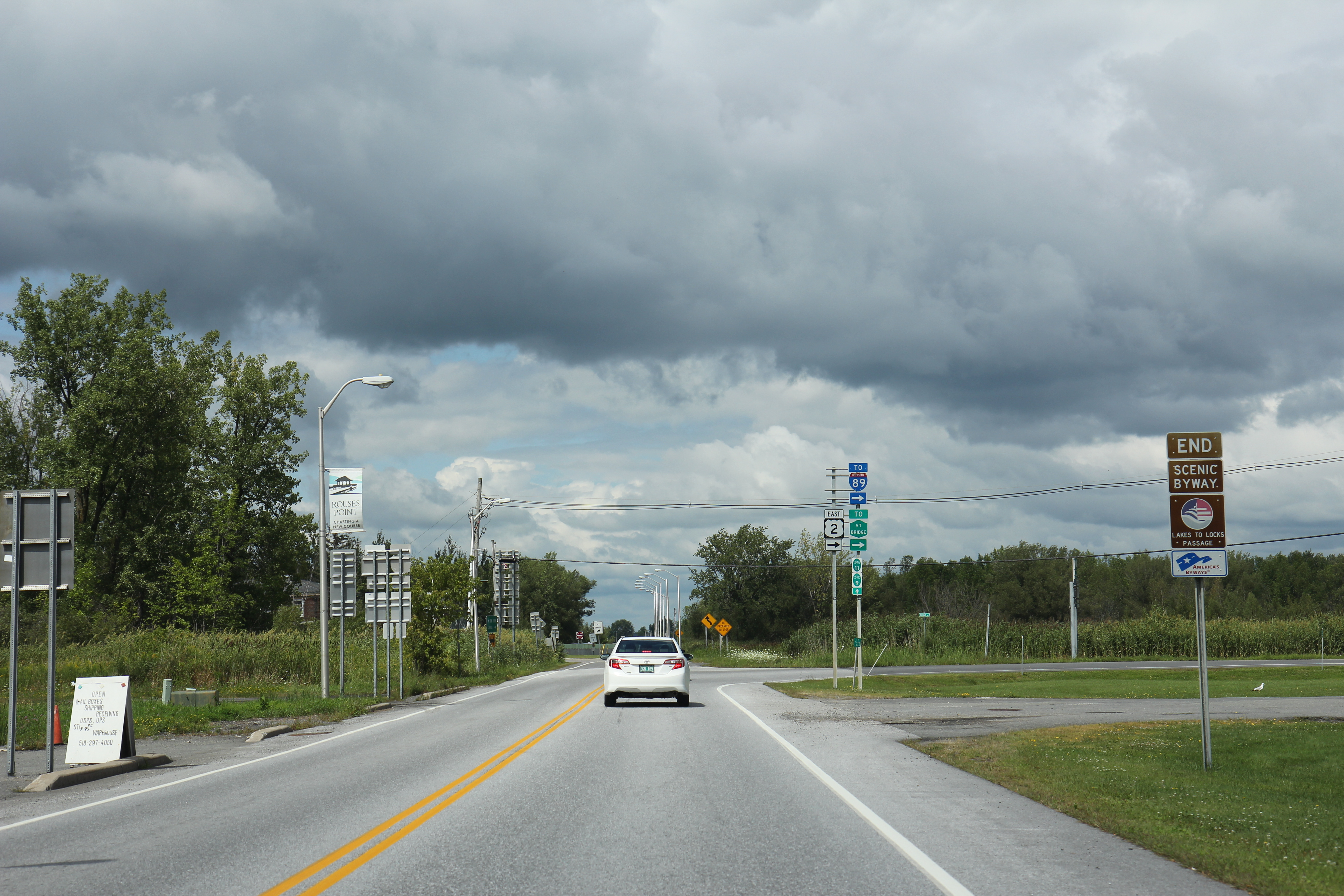 The northern terminus for the Lakes to Locks passage, northern terminus for US Route 11, and the west terminus of US Route 2 by Rouses Point, New York.